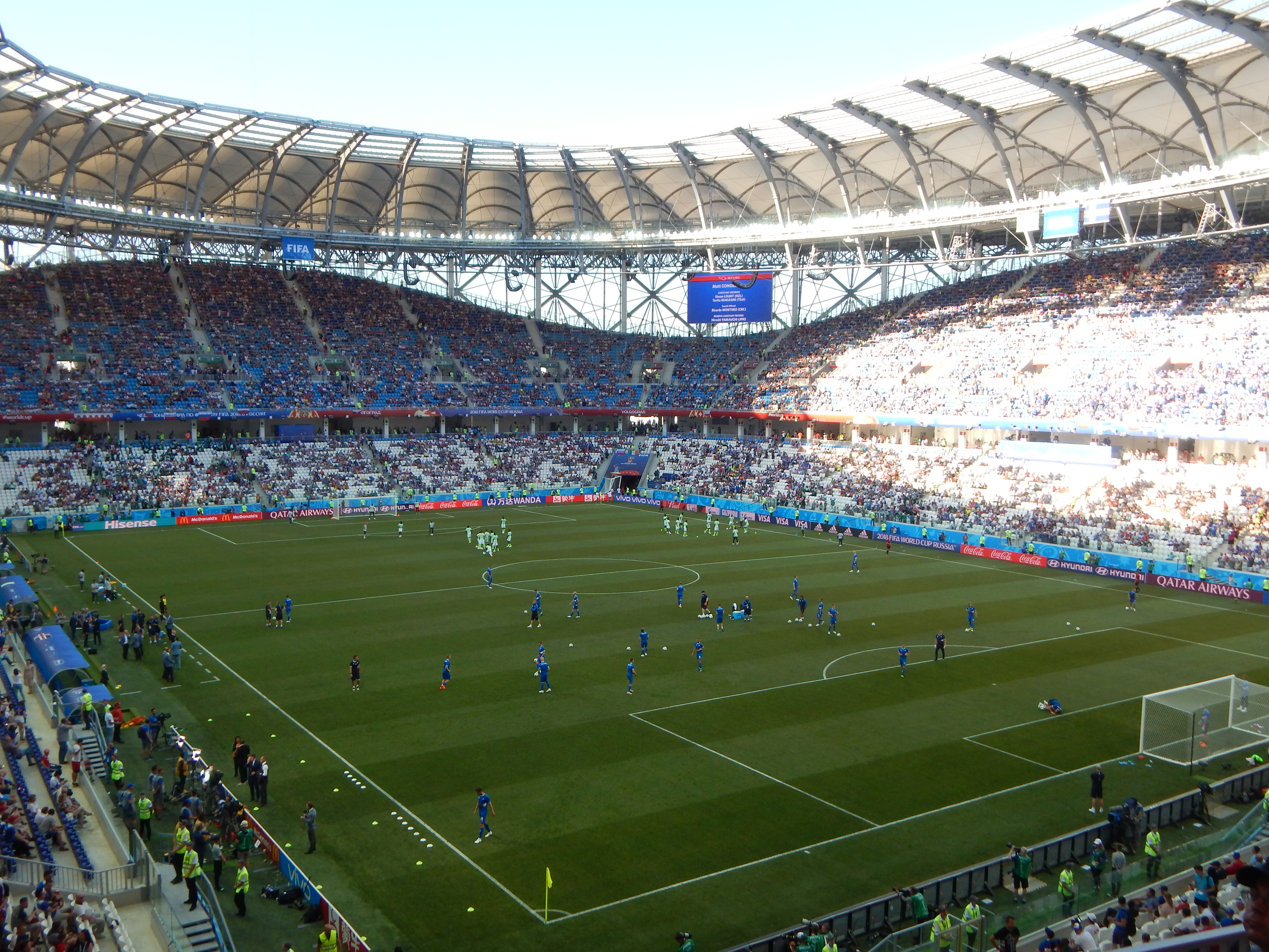 FIFA World Cup 2018, Group D, Nigeria vs. Iceland